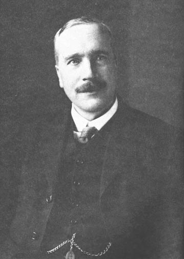 Portrait of Henry Hodgkin (1877-1933)